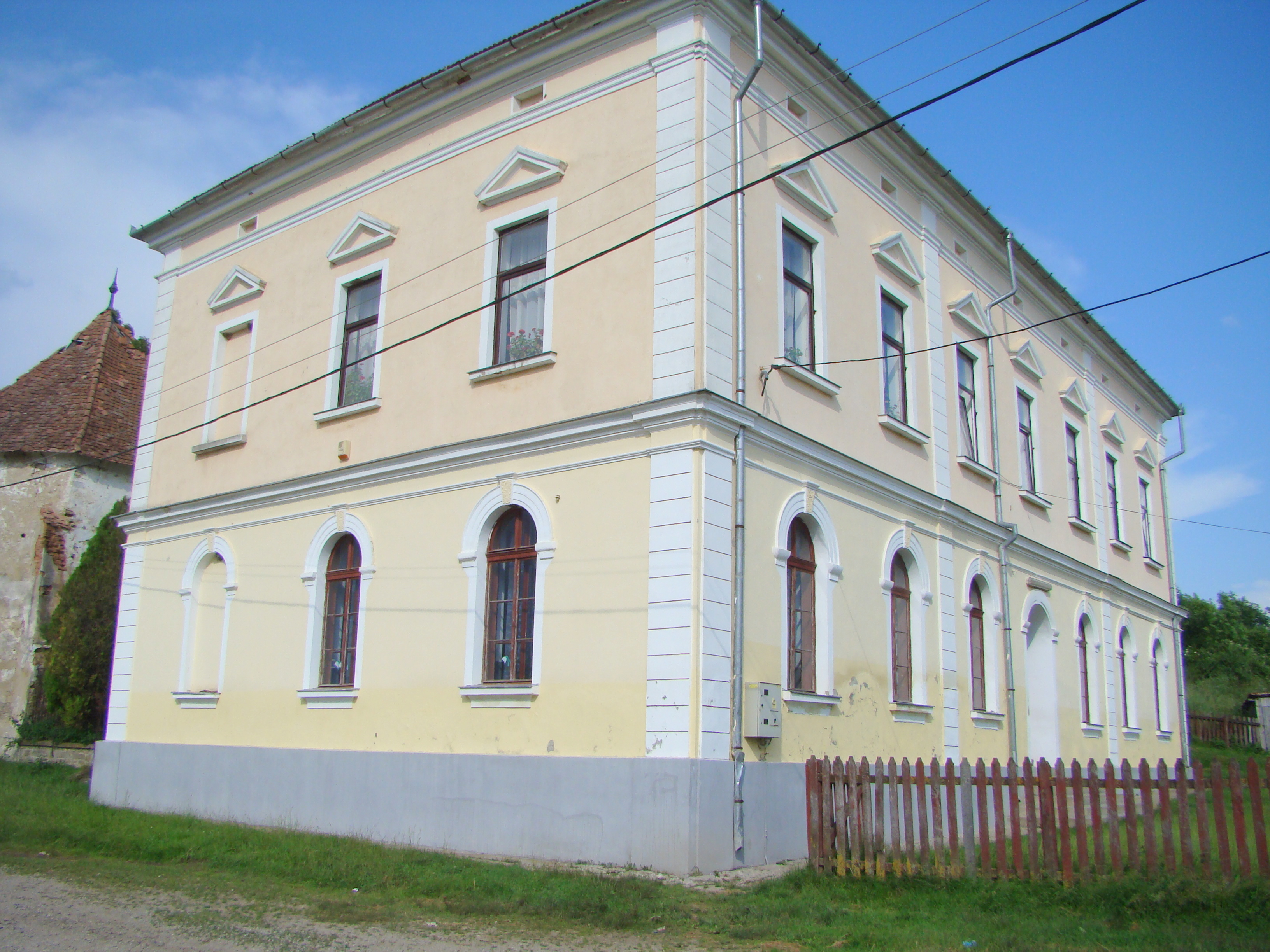 Lutheran church in Beia, Braşov county, Romania